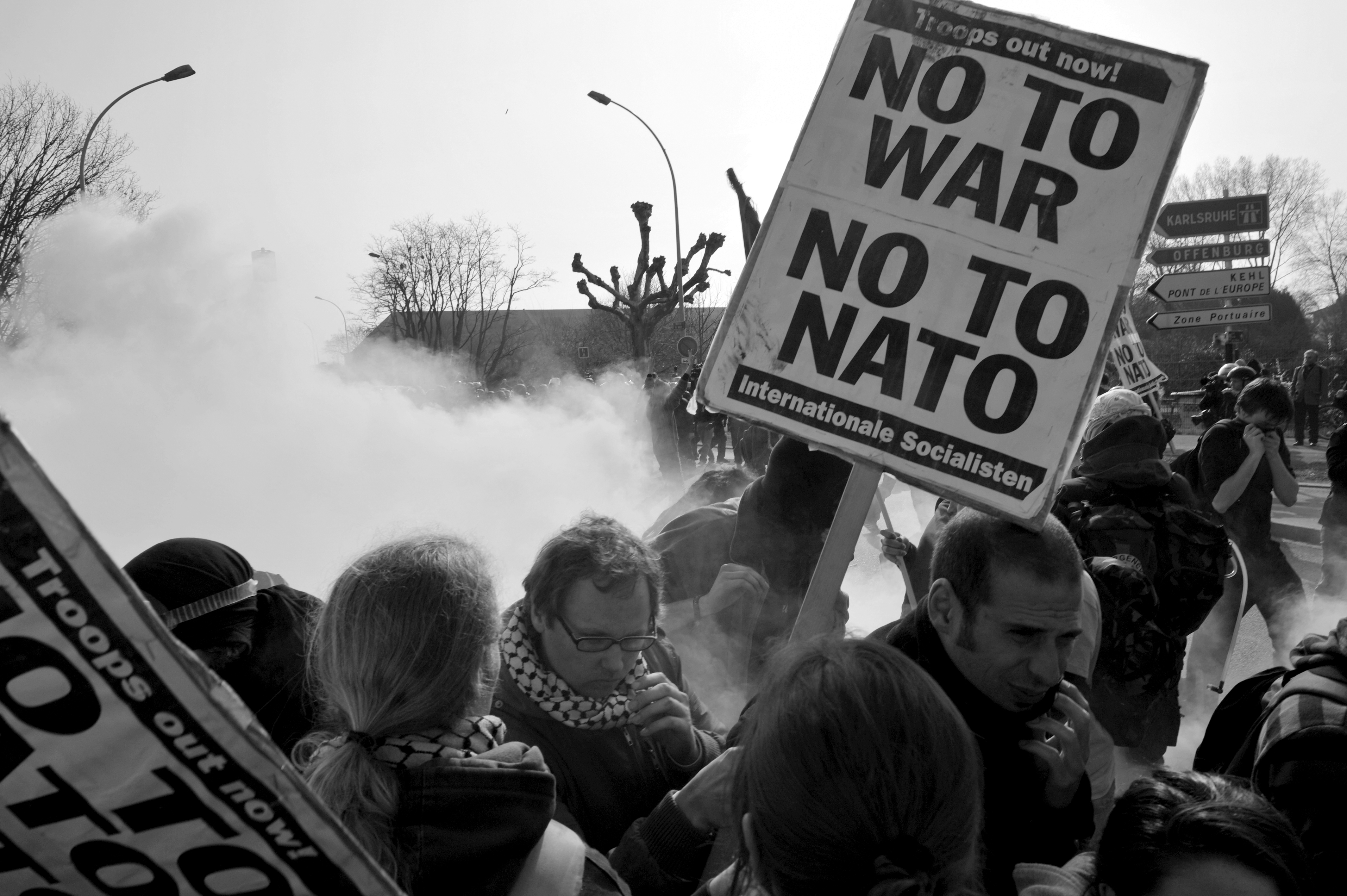 NATO protest Strasbourg 4-4-09